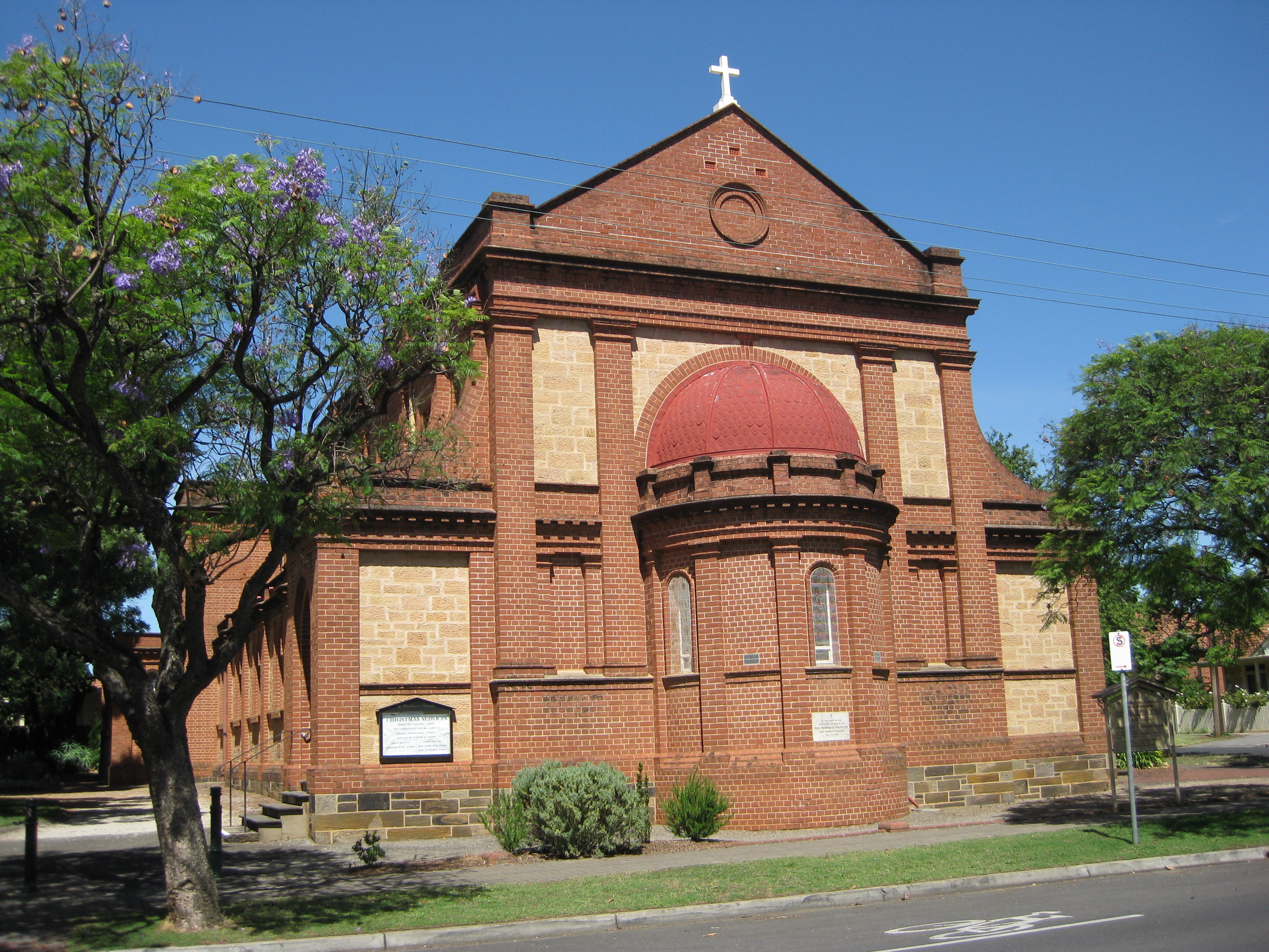 St Theodore's Church (Anglican), located on the corner of Prescott Tce and Swaine Ave, Toorak Gardens.